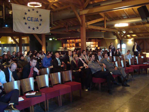 CEJA seminar